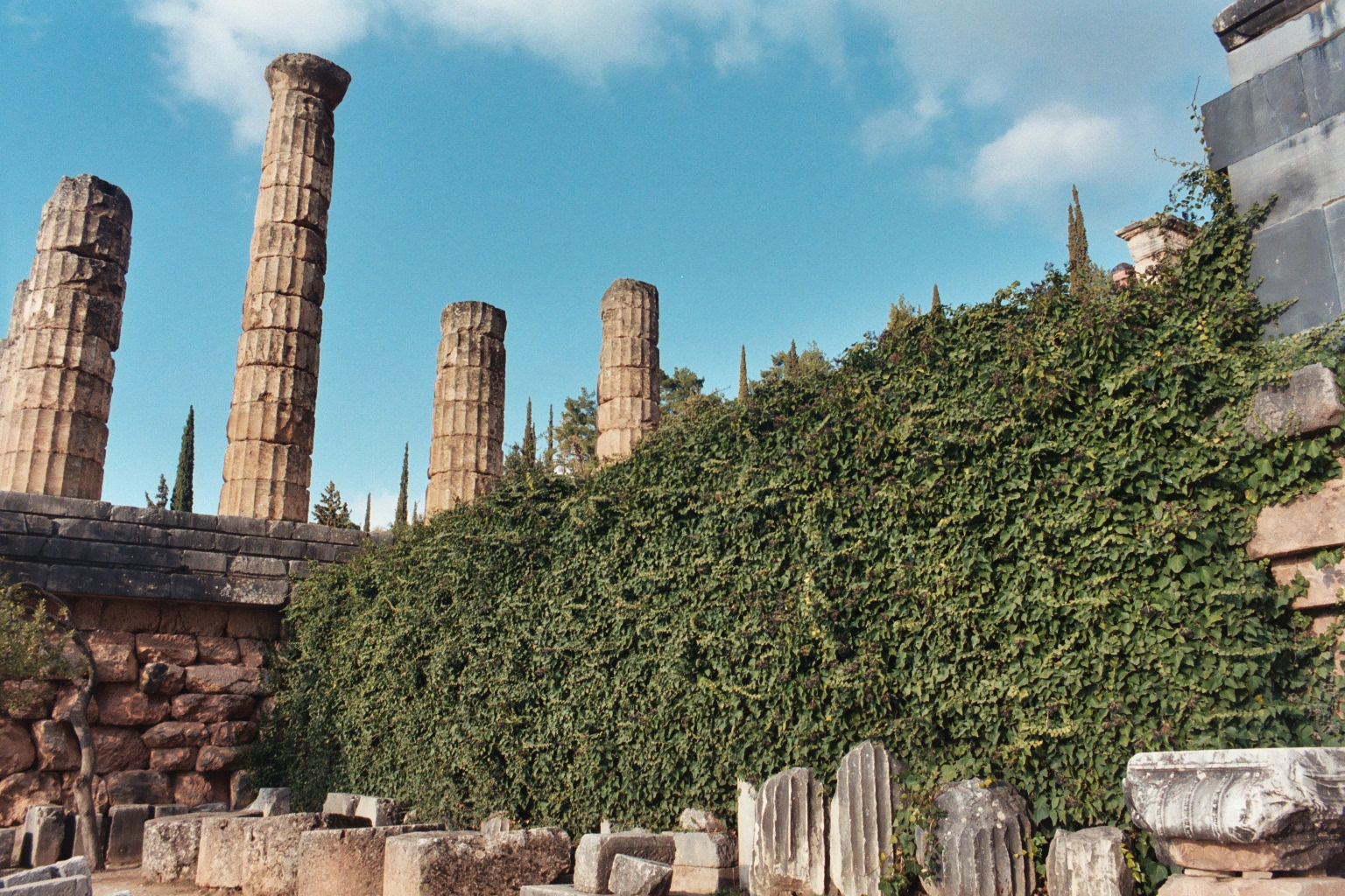 Temple of Apollo at Delphi from below with ivy